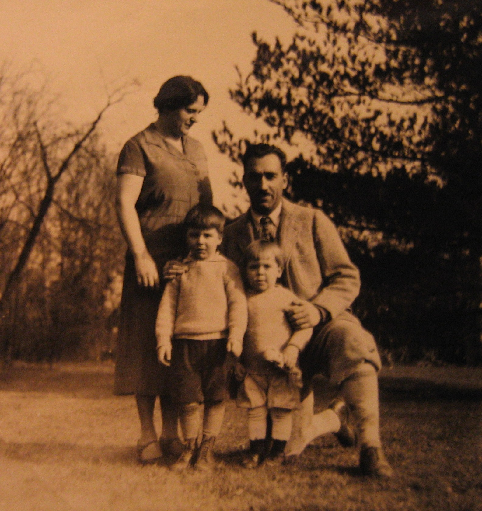 Italian-American aerospace engineer and aviation pioneer Enea Bossi sr with his wife, Flora, and two sons Charles (left) and Enea (right).